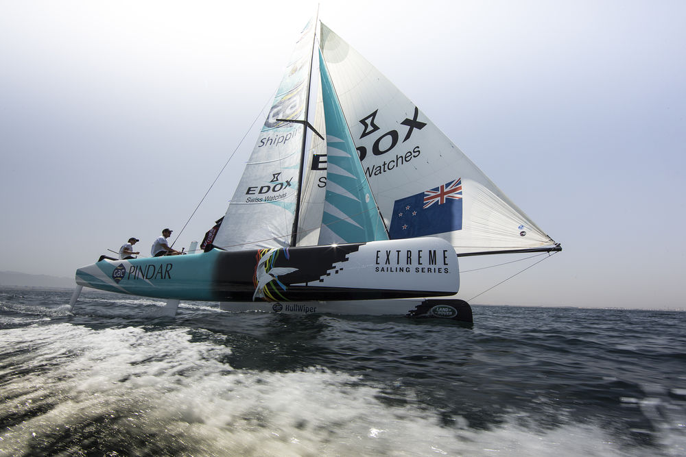 Land Rover Oman has been at the heart of world-class sailing action in the waters off Muscat, as the premium car brand hosted, as global Series Main Partner, the award-winning Extreme Sailing Series™. Discover more here: bit.ly/OMHVE9